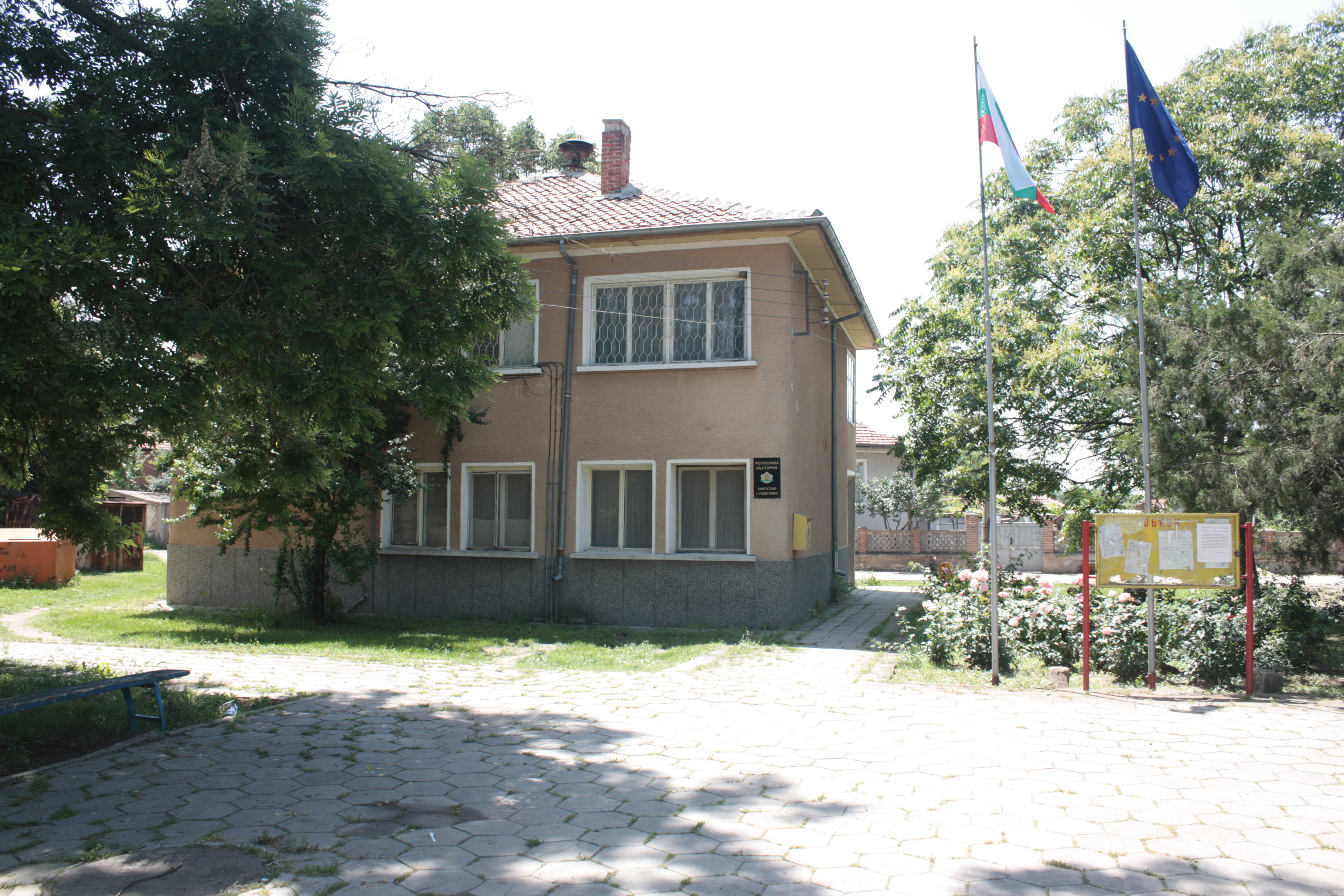 Nedelevo municipality office (Kmetstvo), Bulgaria